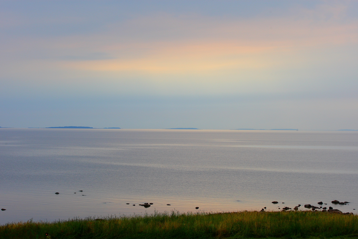 Islands of Hiiumaa, Estonia